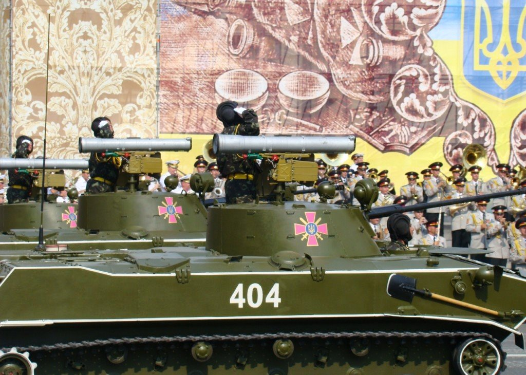 Ukrainian BMD tanks during the Independence Day parade in Kiev, Ukraine in 2008.